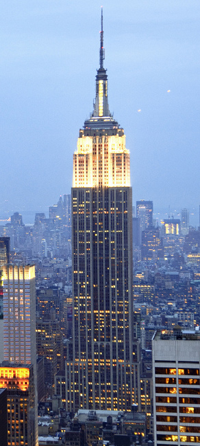 Empire State Building